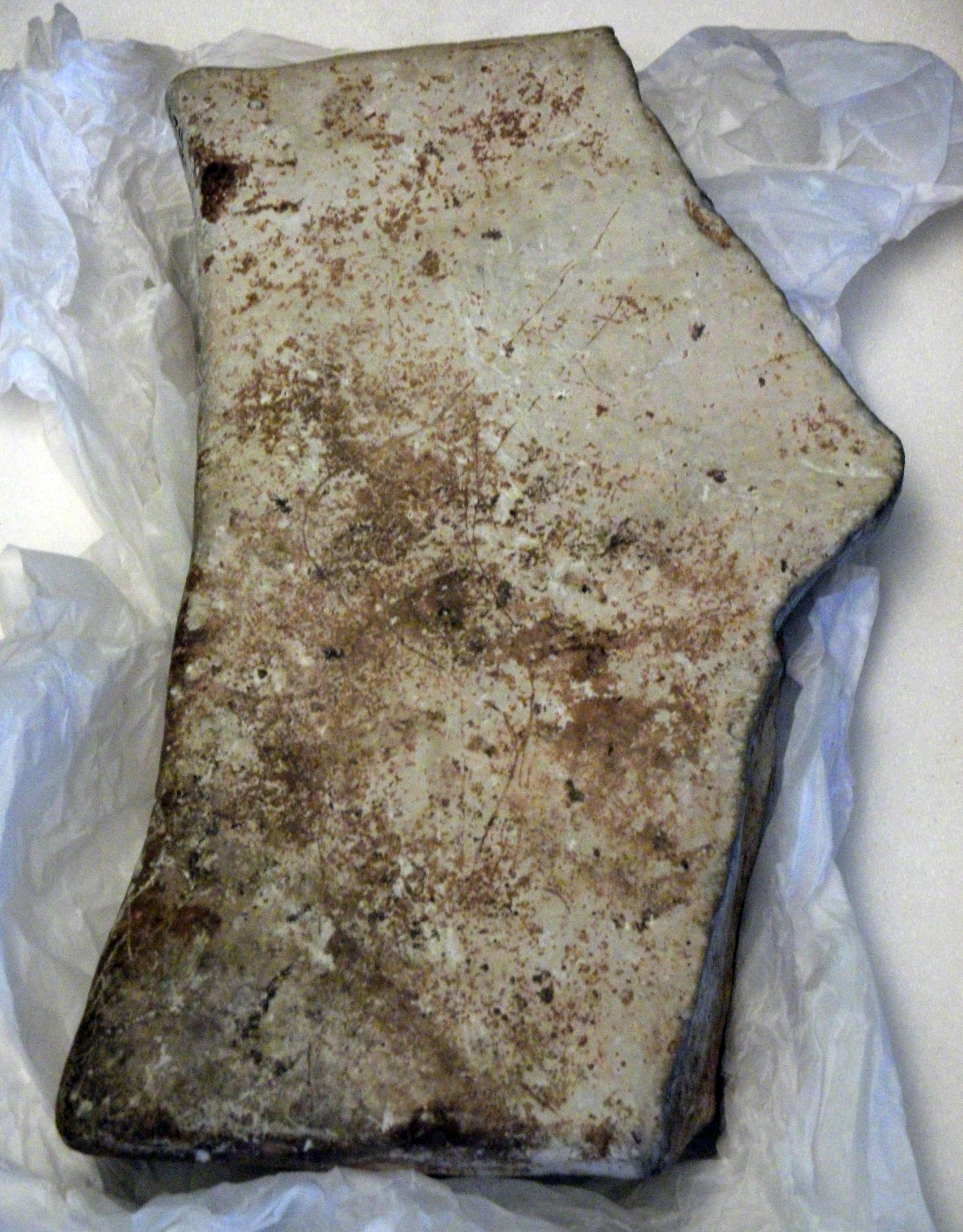 BM Ice Age Art event, October 2011